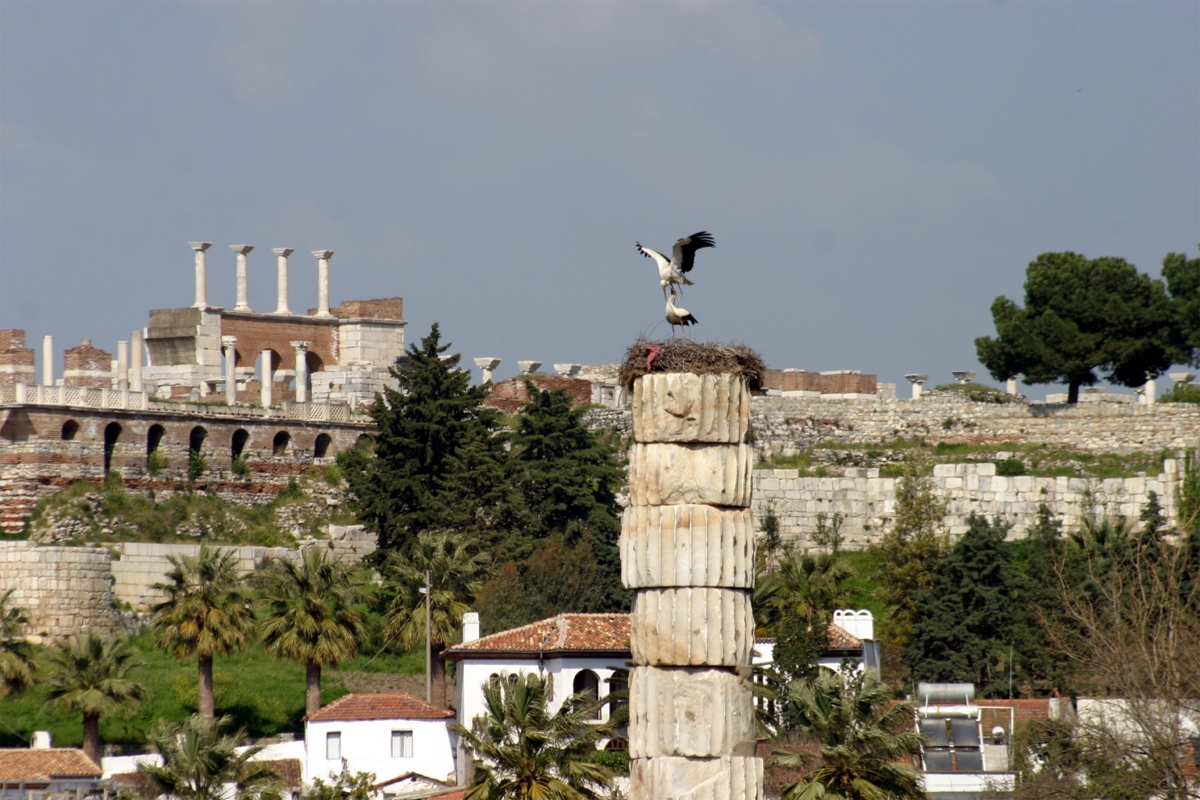 Temple of Artemis with the resident White Storks